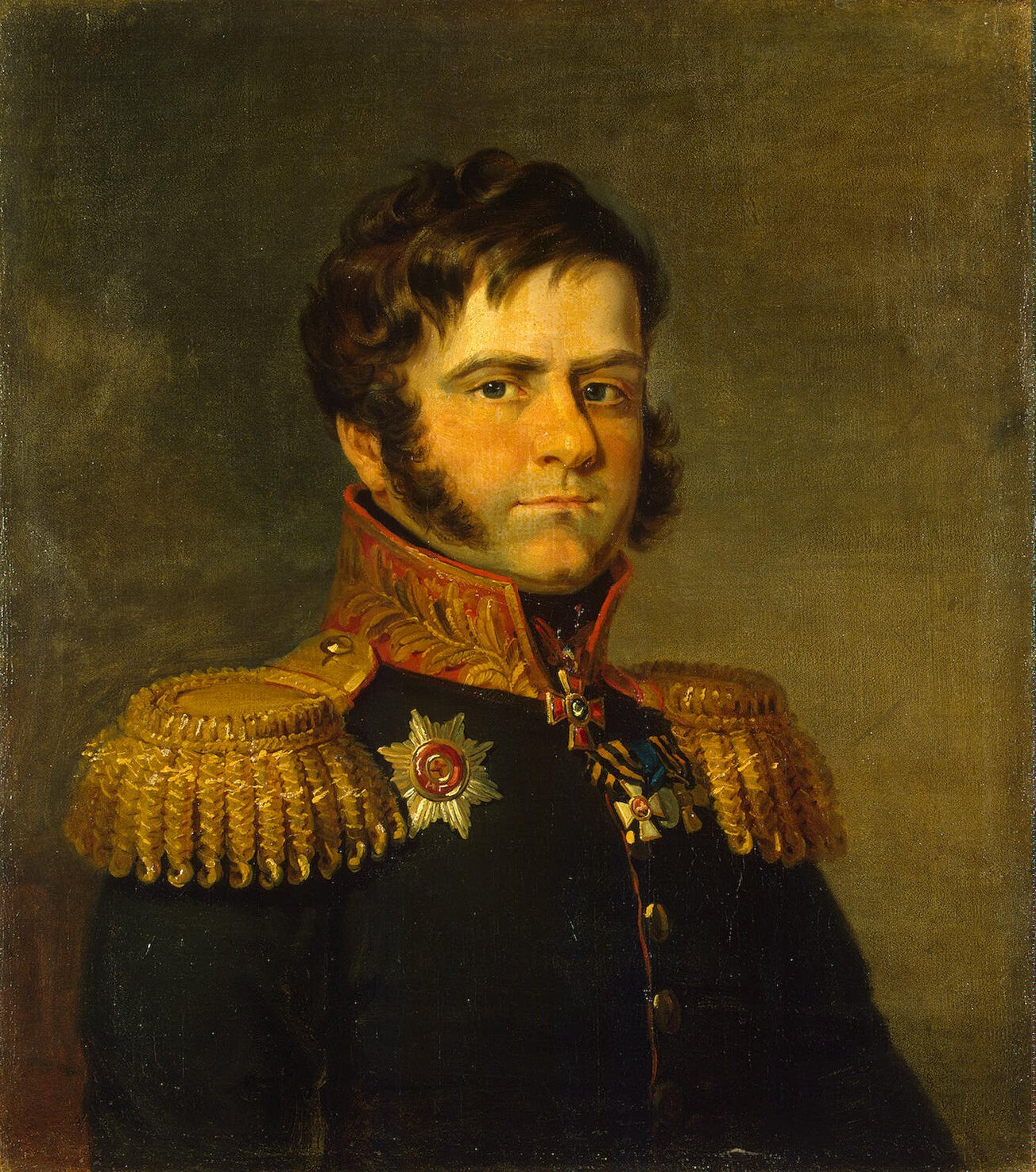 Neverovsky, Dmitry Petrovich; by Geo Dawe 1823-1825 S-Peterburg, Winter Palace War Gallery.